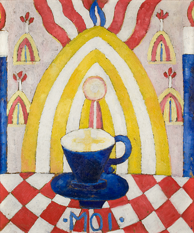 Marsden Hartley: One Portrait of One Woman, oil on composition board. Frederick R. Weisman Art Museum, University of Minnesota, Minneapolis